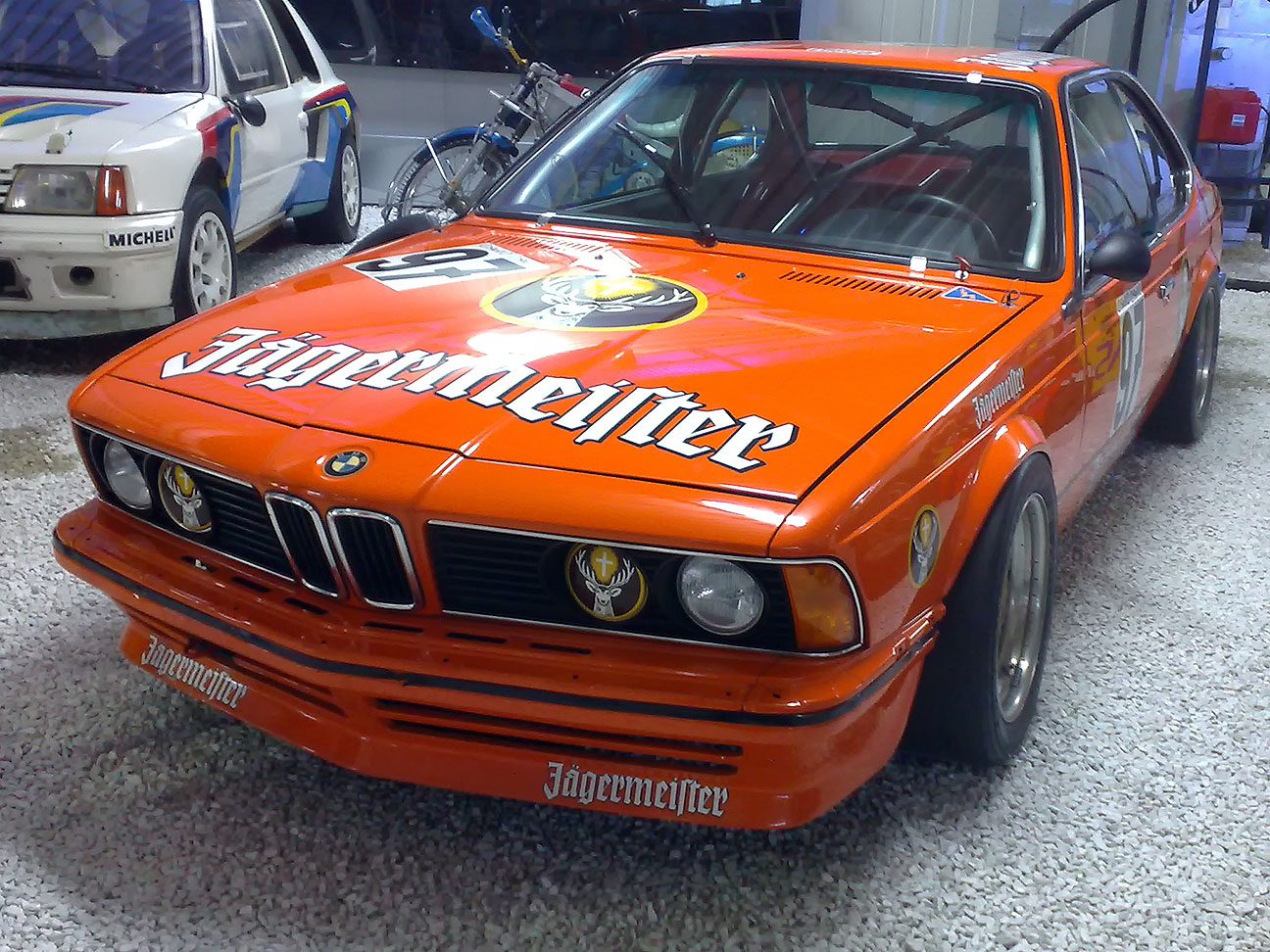 Jägermeister BMW 635 CSi Coupe at Auto- und Technikmuseum Sinsheim